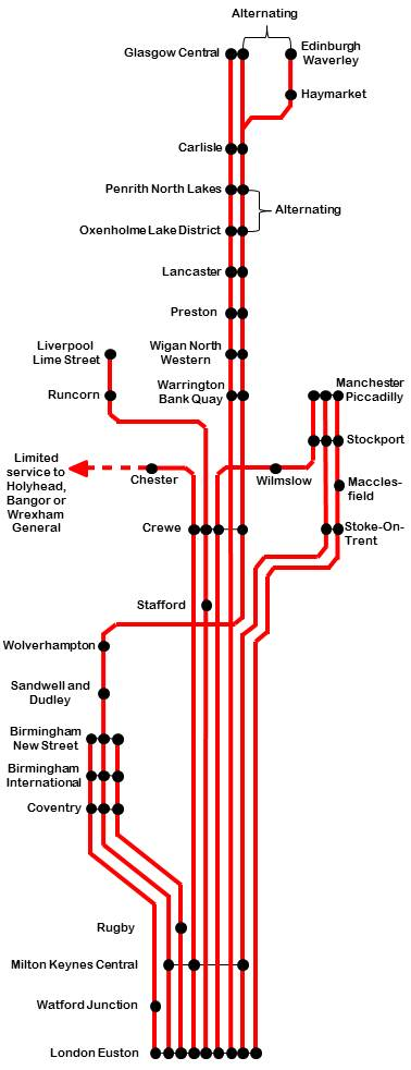 The typical VT Monday-Friday off-peak service, as of 2015